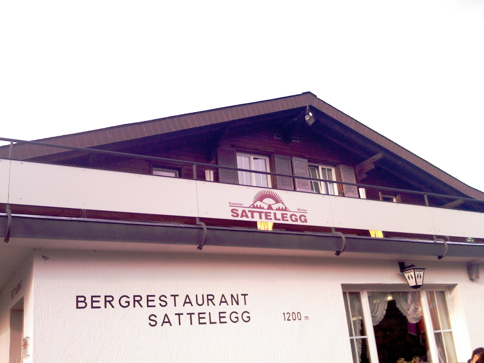 Sattelegg, restaurant at the pass heigt